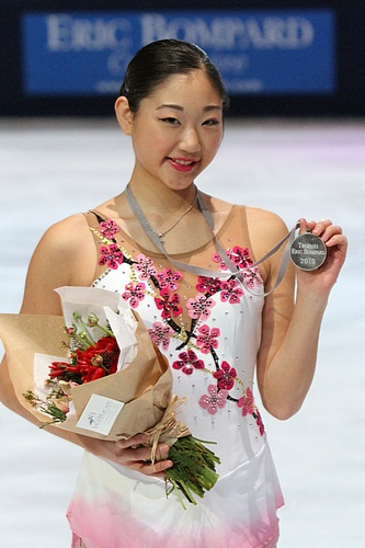 Mirai Nagasu at the 2010 Trophy Eric Bompard.